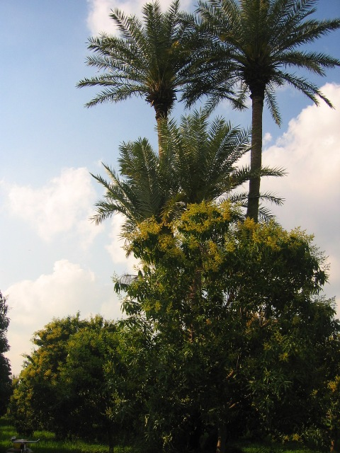 Author: Zeeshan Javeed Taken photo during a trip to Multan, Pakistan in 2005.